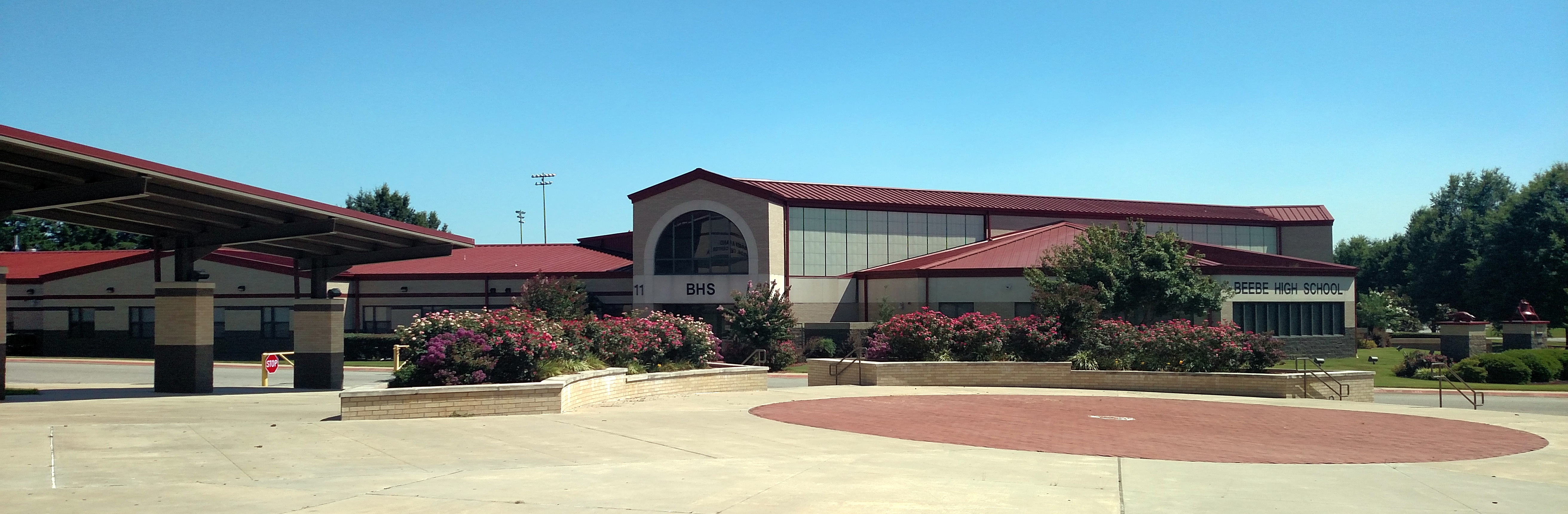 Beebe HS